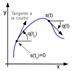 Illustration concernant les abscisses curvilignes